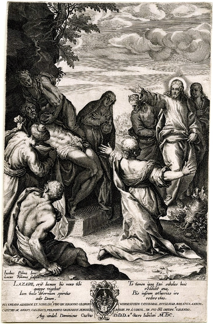 Johann Georg von Werdenstein (1542-1608), Domherr, Stich zum Priesterjubiläum, 1600